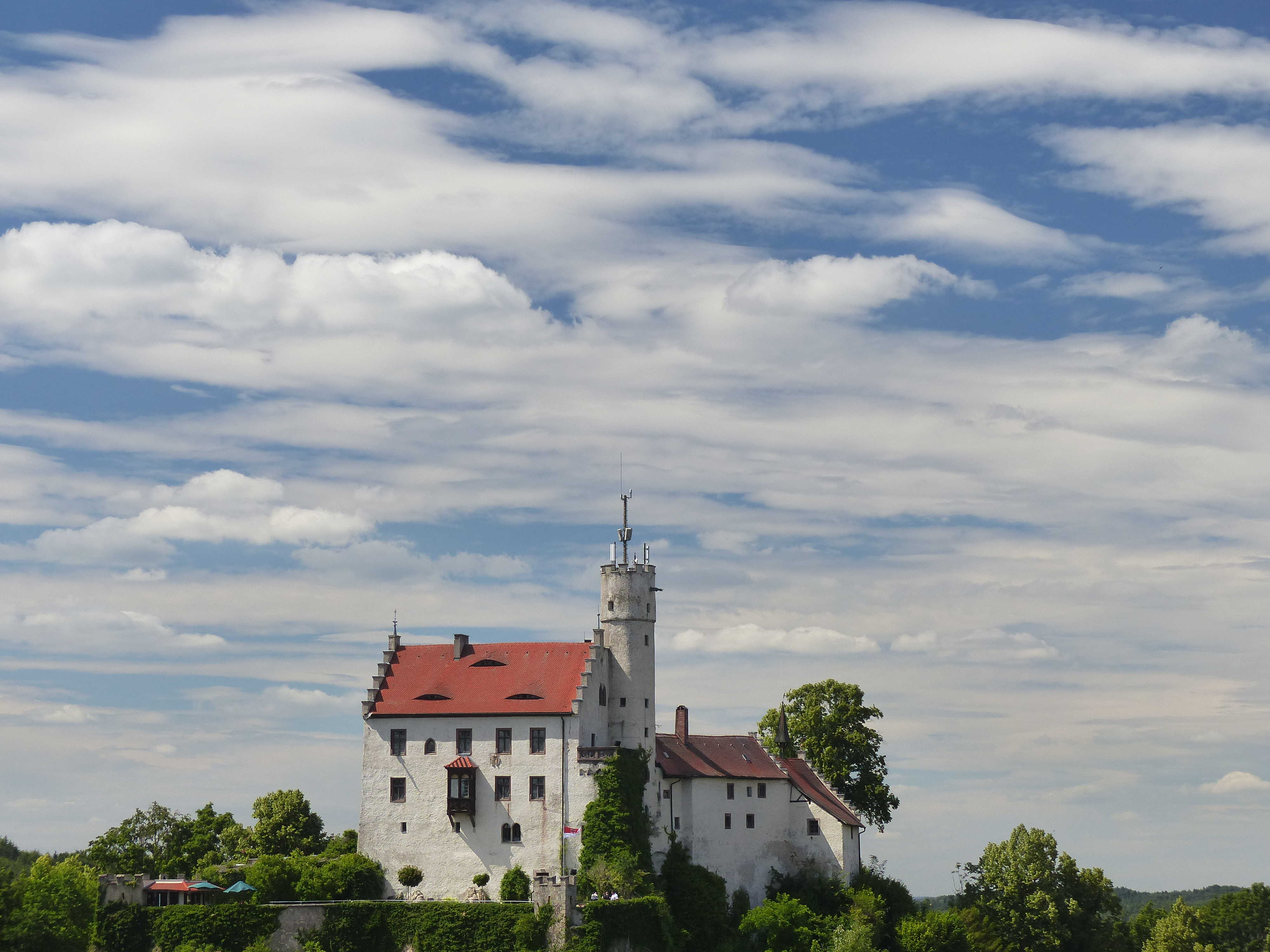 The Gößweinstein Castle, the former administrative seat of the Amt Gößweinstein.